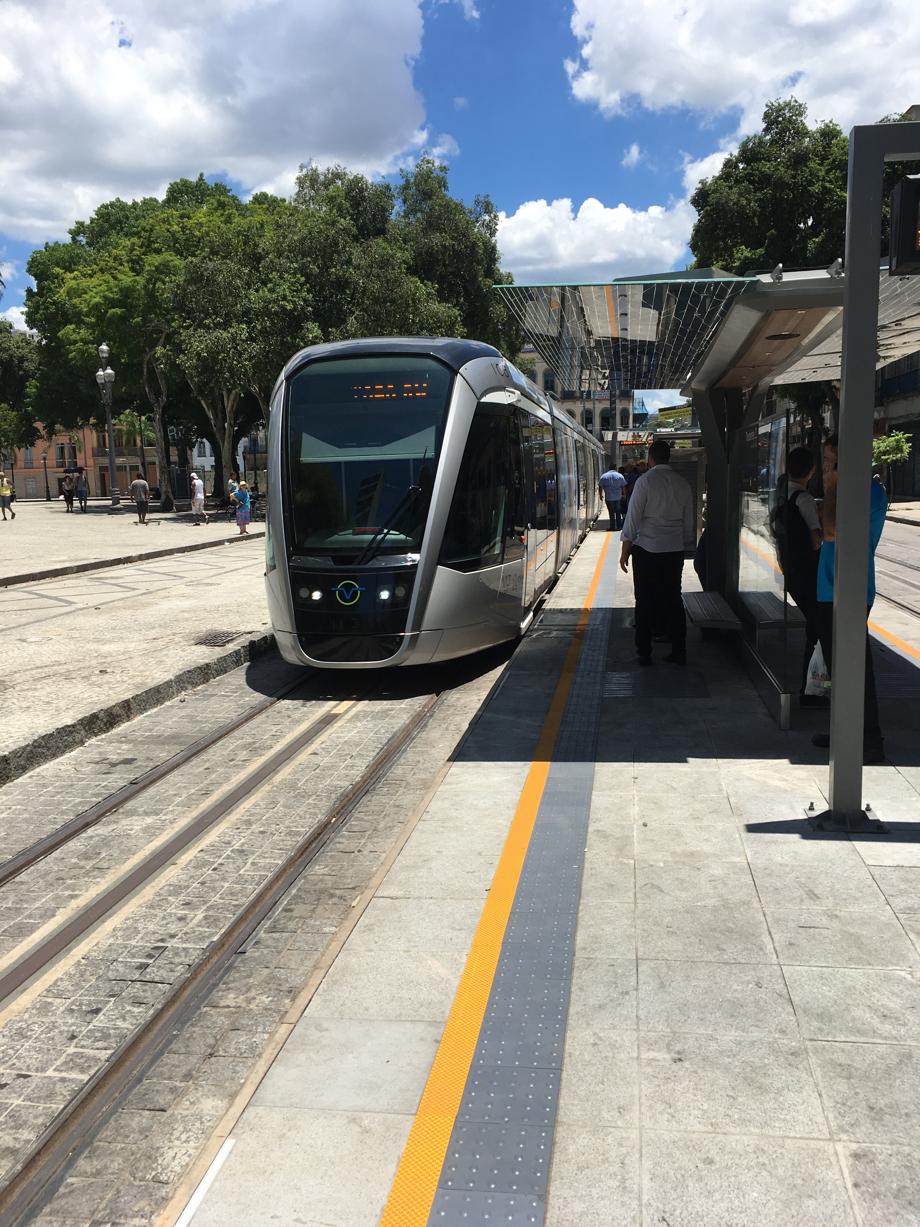 Rio de Janeiro LRT, Praça Tiradentes station.